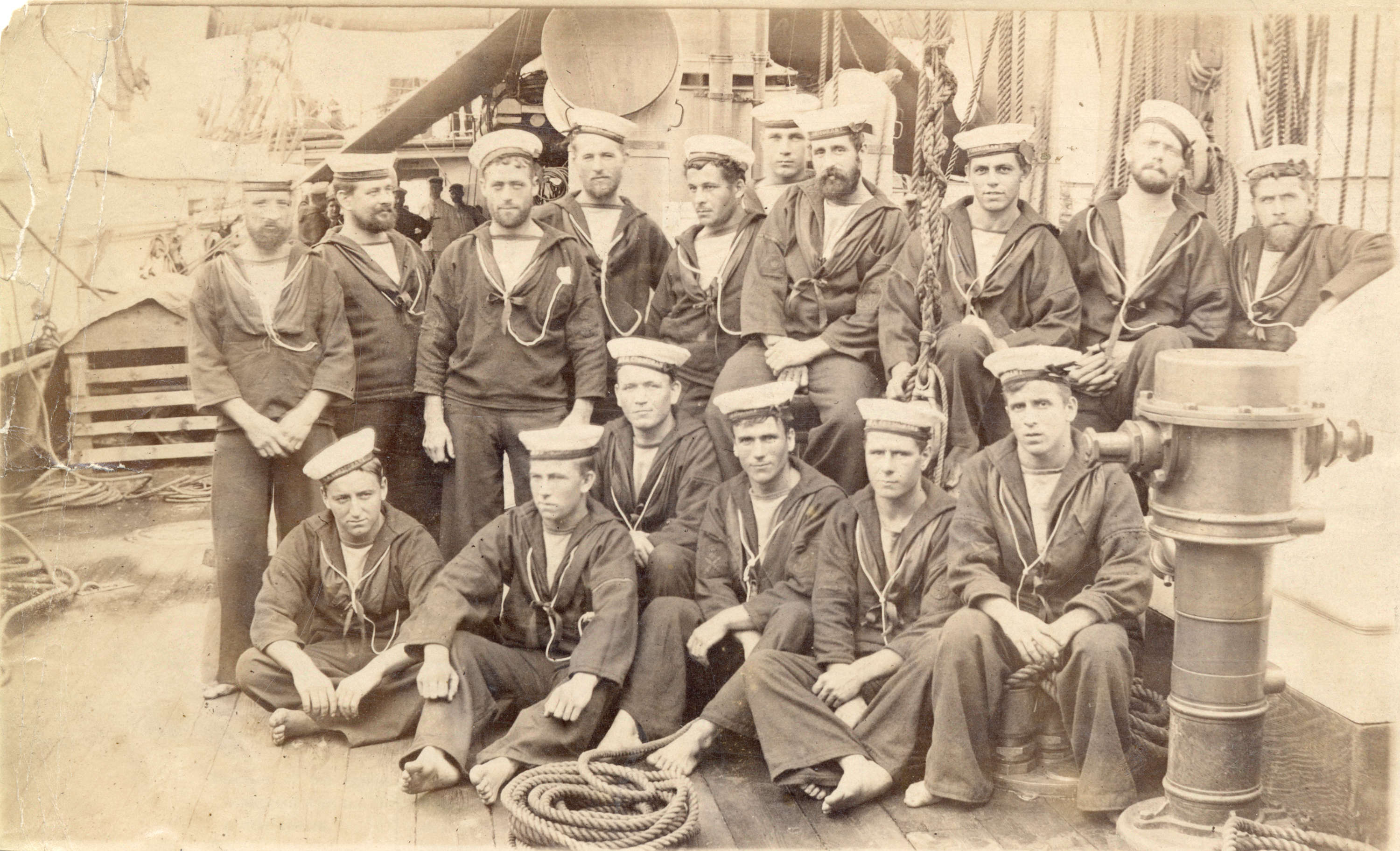 Crew of HMS Cormorant at Esquimalt.